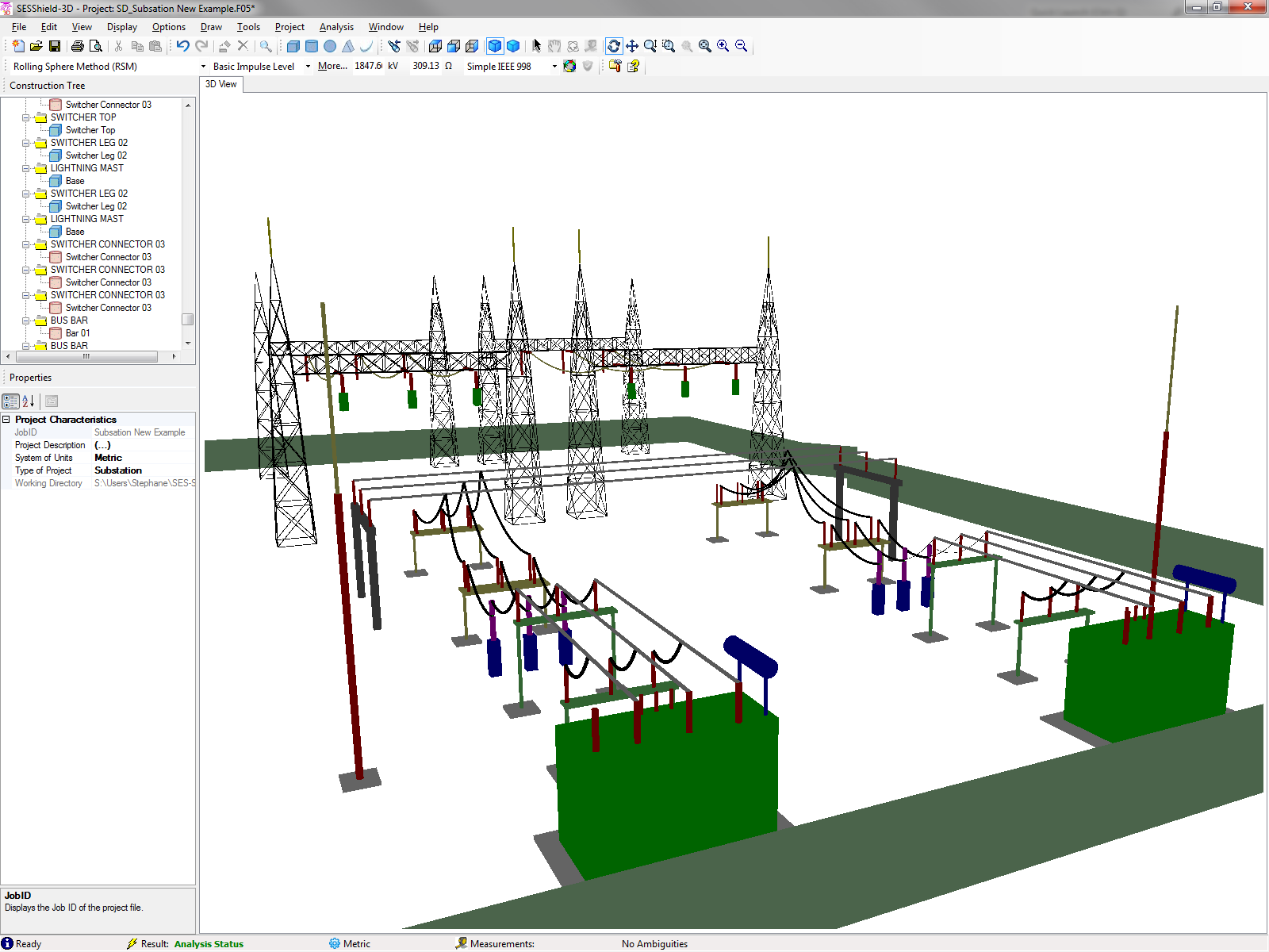 Screen shot of a user interface of SESShiled-3D